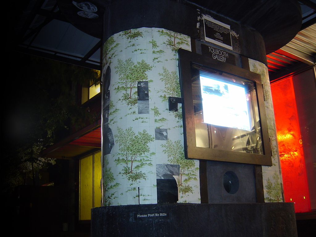 Rorschach Notions by Delta Camshaft Collective installed at the Tollbooth Gallery